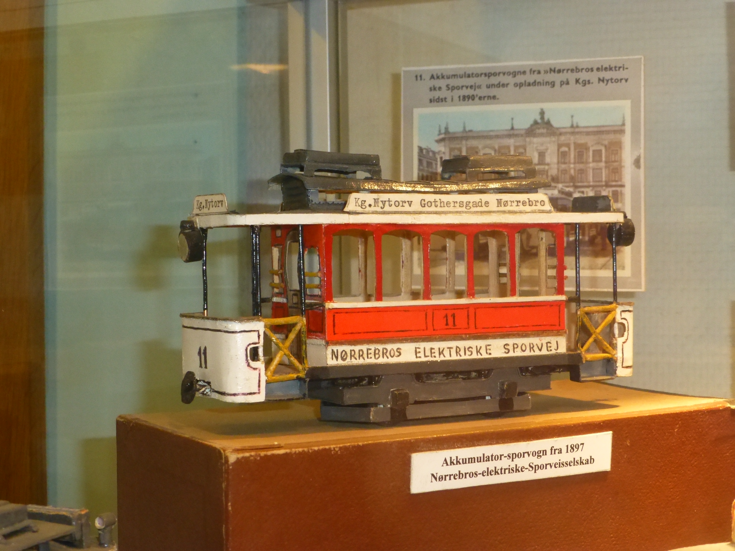 Model of accumulator tram from Copenhagen, NES 11, at Sporvejsmuseet Skjoldenæsholm in Denmark.